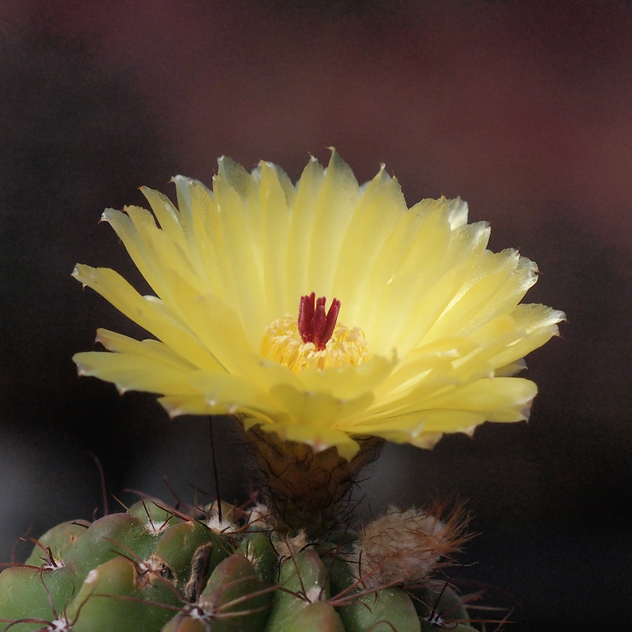 Notocactus ottonis